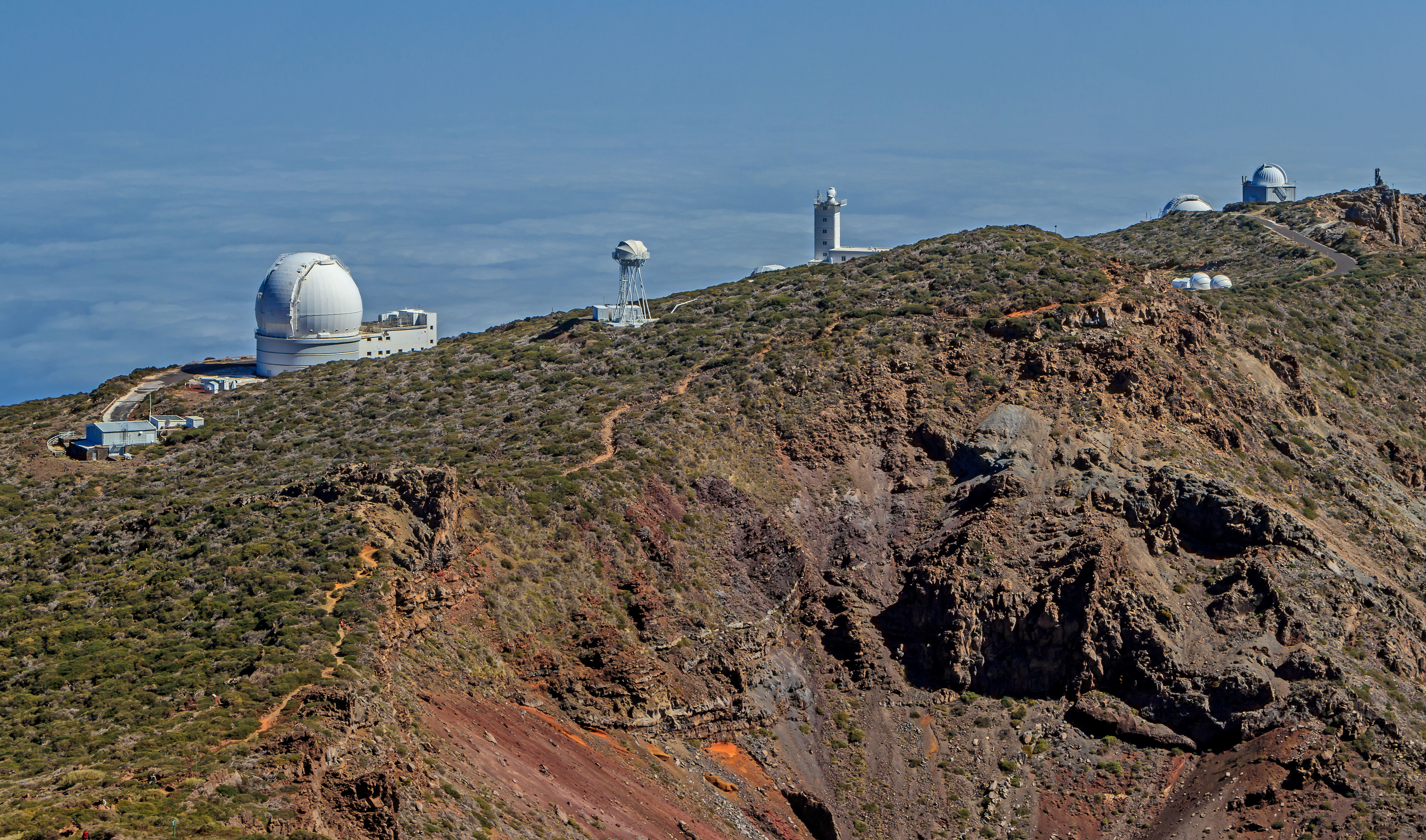 The telescopes Automatic transit circle (ATC), William Herschel Telescope (WHT), Dutch Open Telescope (DOT), Liverpool Telescope (LT), Swedish Solar Telescope (SST), Gravitational-Wave Optical Transient Observatory (GOTO), Isaac Newton Telescope (INT), Jacobus Kapteyn Telescope (JKT); Observatorio del Roque de los Muchachos (ORM), Roque de los Muchachos, Garafía, La Palma, Canary Islands, Spain.